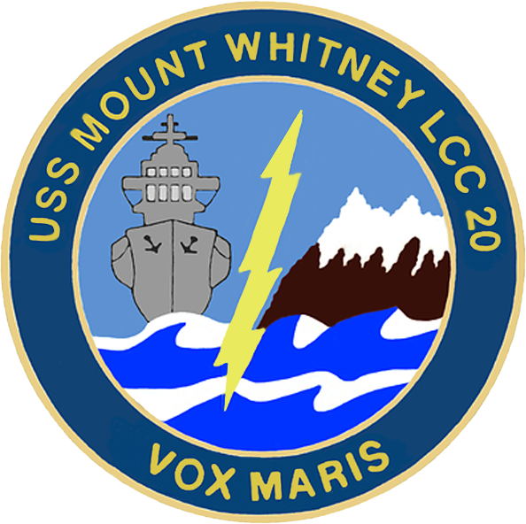 Emblem of the USS Mount Whitney LCC-20